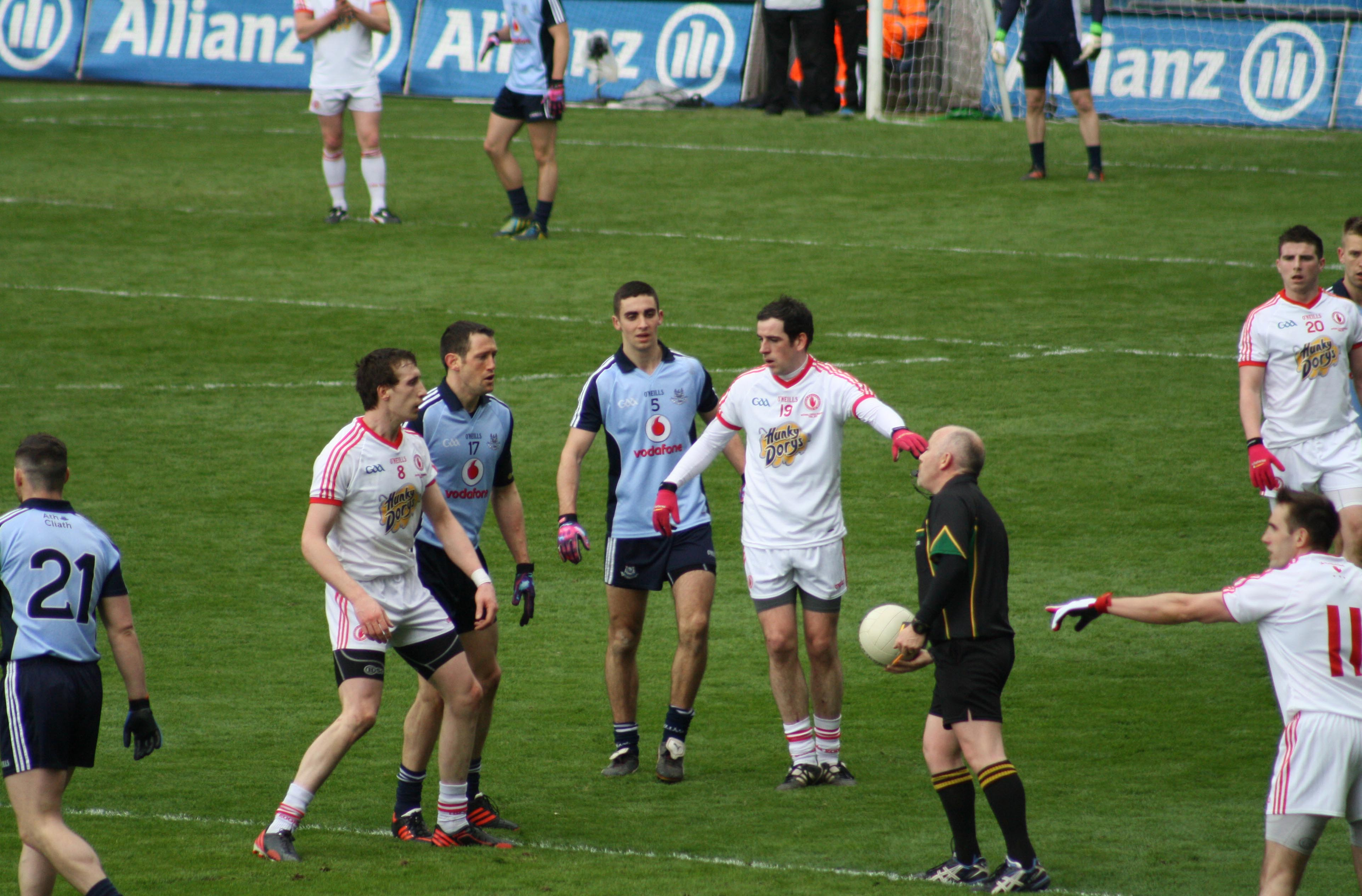 2013 National Football League Final Dublin - Tyrone 28 april 2013 - Croke Park (Dublin)